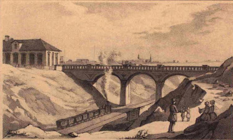 The first bridge across the Railway at Carlsberg in Valby, Copenhagen, Denmark